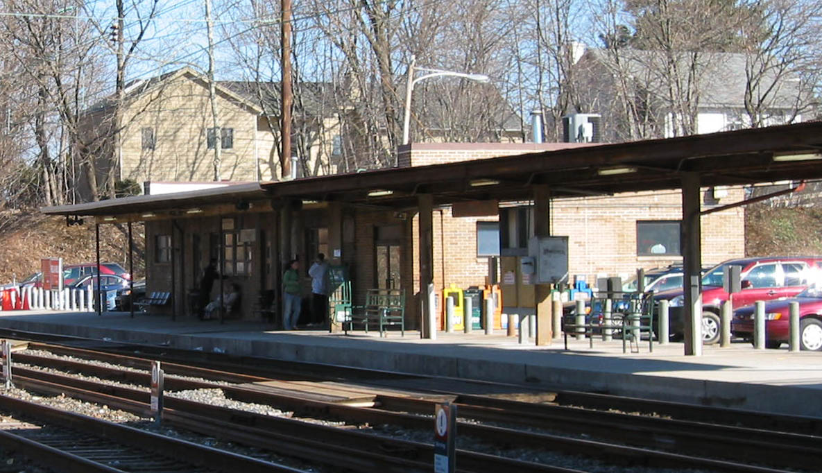 Photo of Paoli train station in Paoli, Pennsylvania.